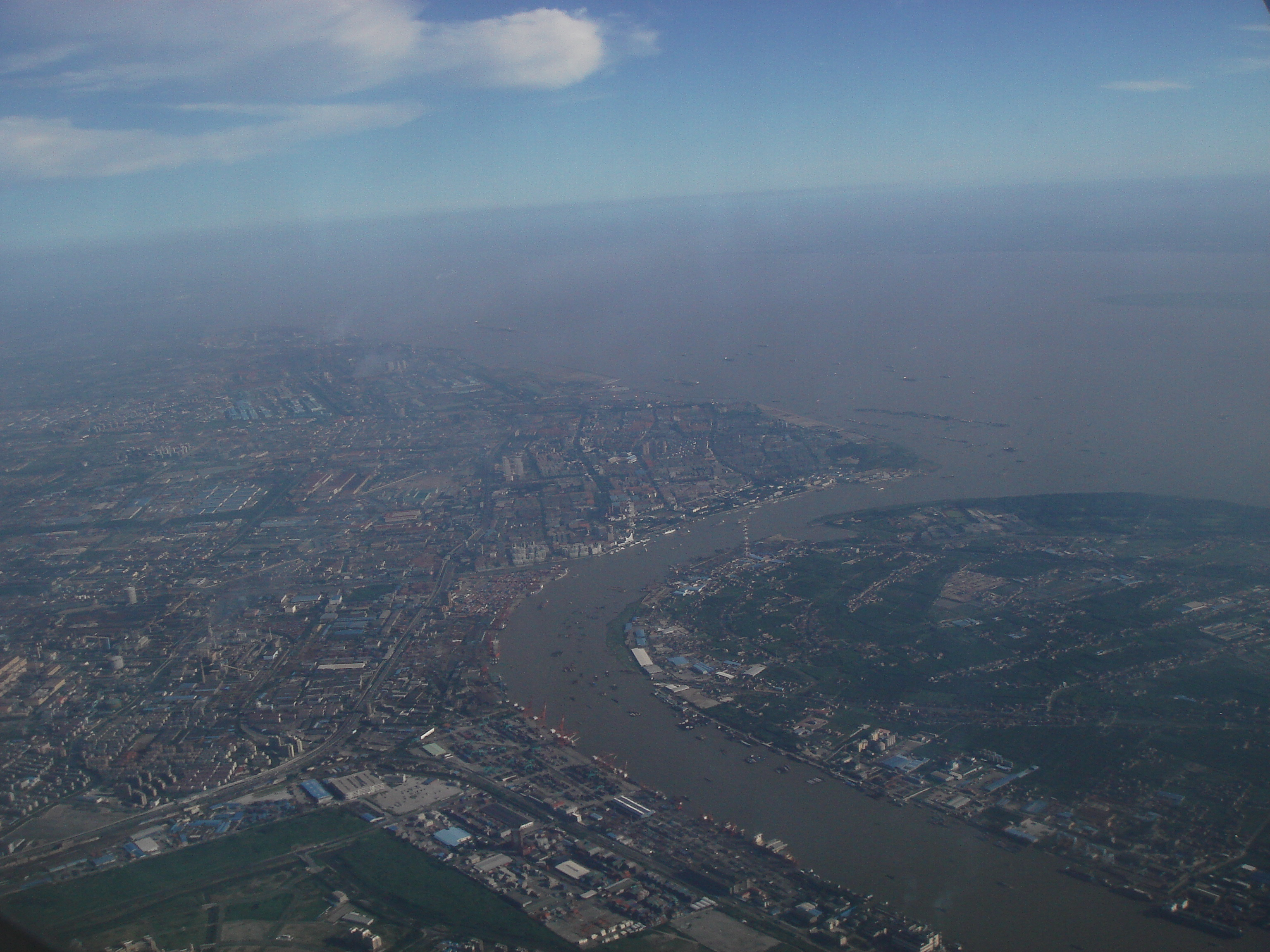 Huangpu River and Yangtze River in Baoshan District, Shanghai. Seen from the plane.